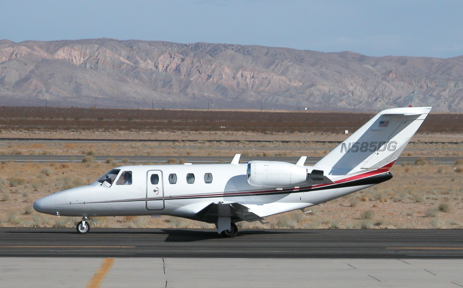 Cessna CitationJet taxiing after landing at Mojave Airport